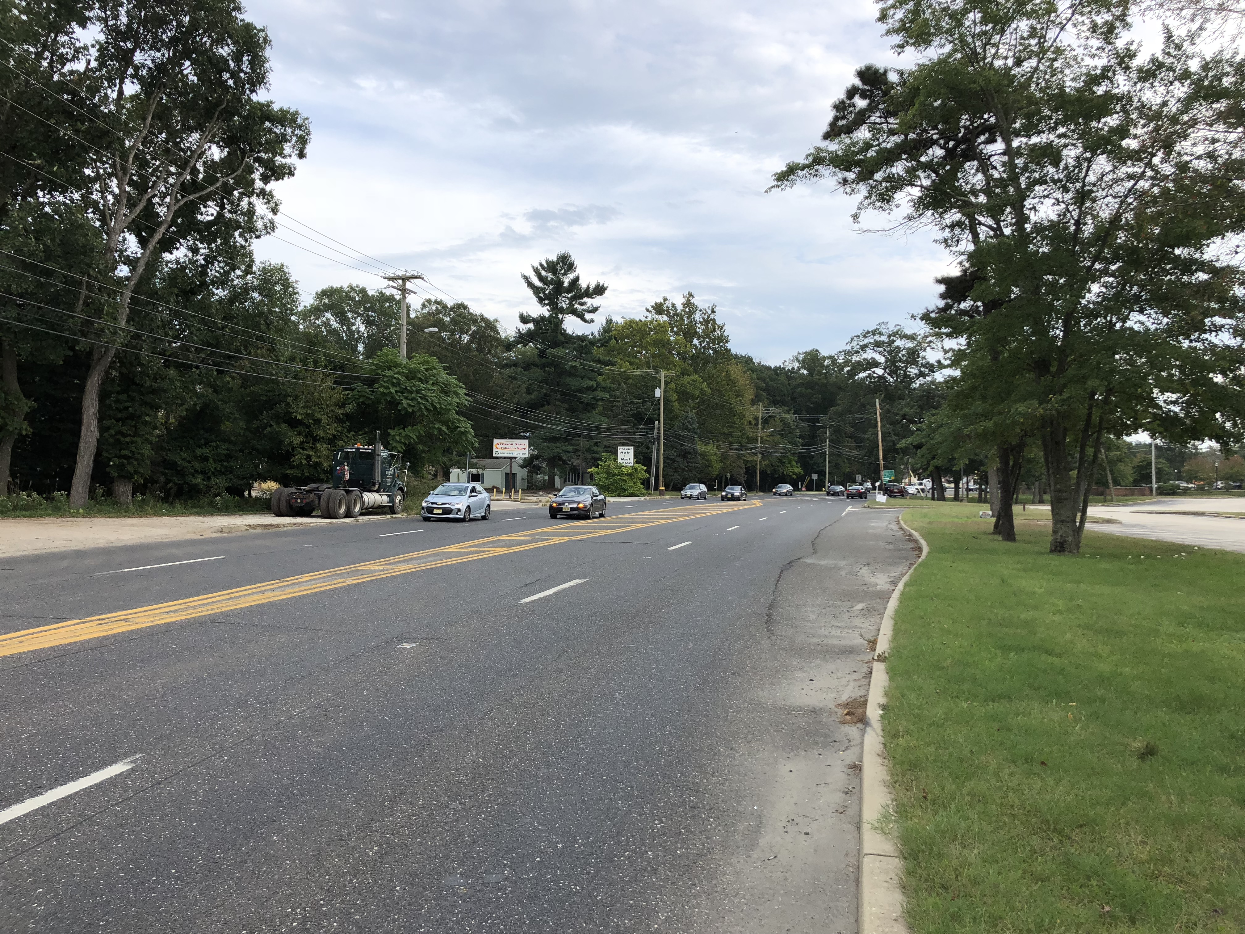 View south along Camden County Route 561 (Lakeview Drive/Haddonfield-Berlin Road) just north of United States Avenue in Gibbsboro, Camden County, New Jersey